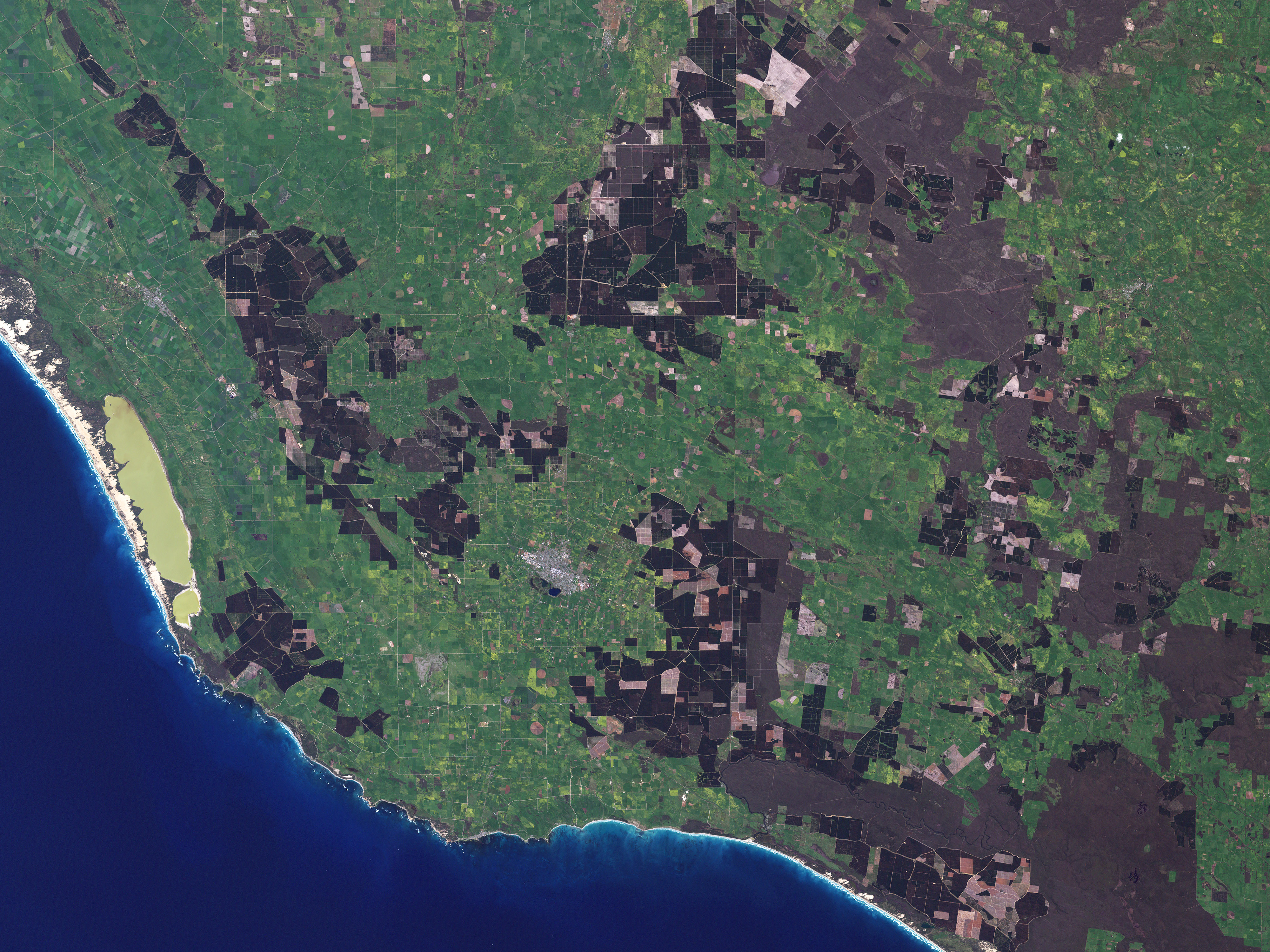 This photo-like image of Mount Gambier was acquired from low-earth orbit by the Landsat 7 satellite’s Enhanced Thematic Mapper Plus (ETM+) instrument. In this late spring image, vivid green fields surround the white limestone and concrete of the town. Much of the greenery is dairy pastureland, supporting one of the major local industries, cheese. Patches of deep, dark green are pine plantations, which support another mainstay of the local economy, timber. But perhaps the most striking feature is the pair of caldera lakes immediately south of the town. True to its name, Blue Lake is blue in the image, even though ETM+ acquired the image a month before the Blue Lake Days festival and the normal colour-turning of the lake. The lake turns blue at different times each year, and the satellite may have captured this image as the lake transitioned from its dark blue winter colour to the bright blue summer colour, a shift that occurs over weeks. Also, the satellite may have observed more blue light than a person standing by the lake would, since blue light tends to scatter up more than out at an angle. Thus someone immediately above the lake looking down would see a more blue-toned surface than a person standing on the rim of the caldera.